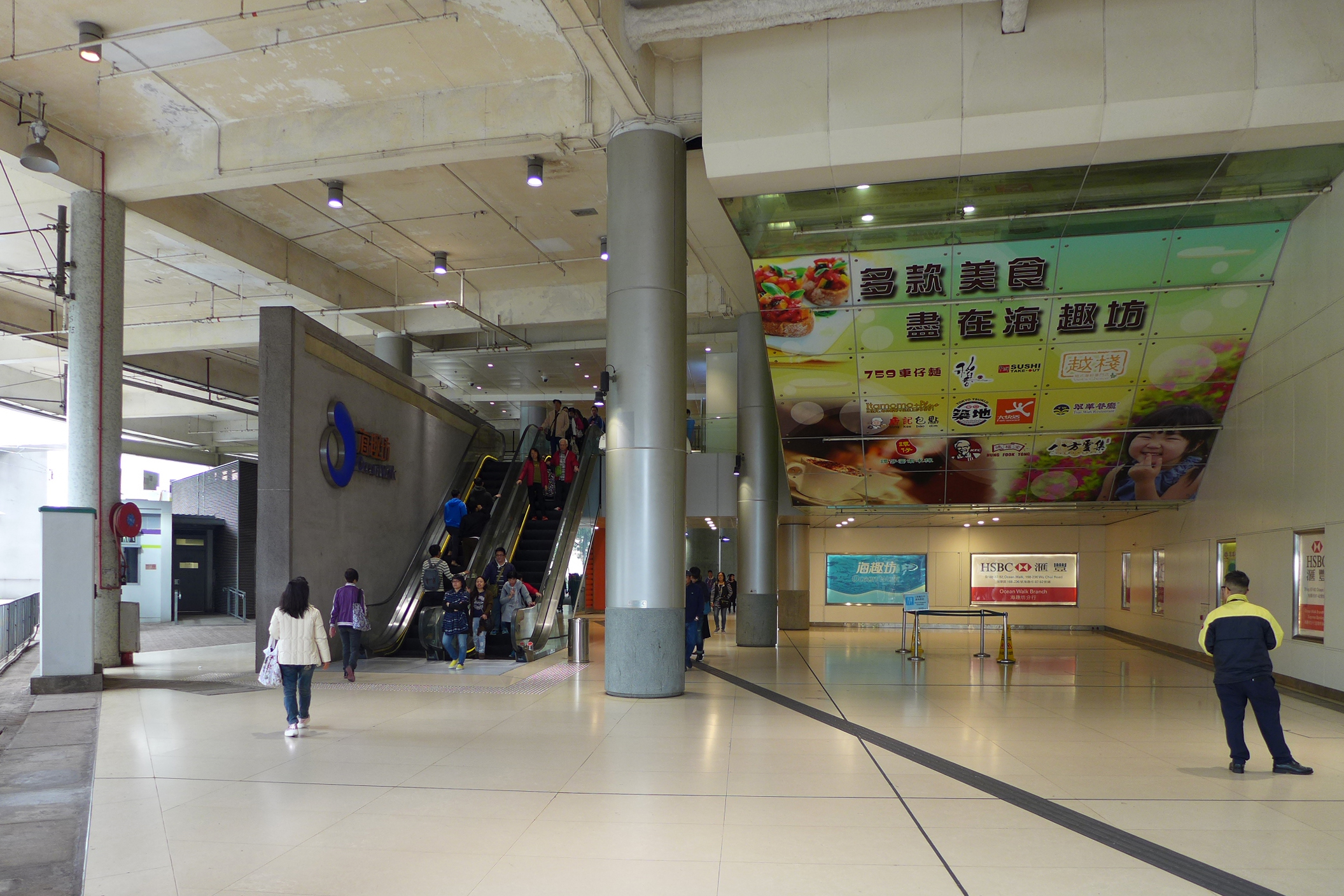 Ocean Walk Entrance